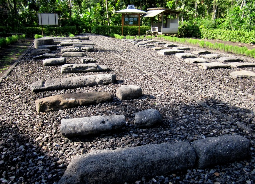 Bleberan Megaliths Pooling Site. The site is a pooling station for megaliths found around Playen, Gunungkidul, Yogyakarta.